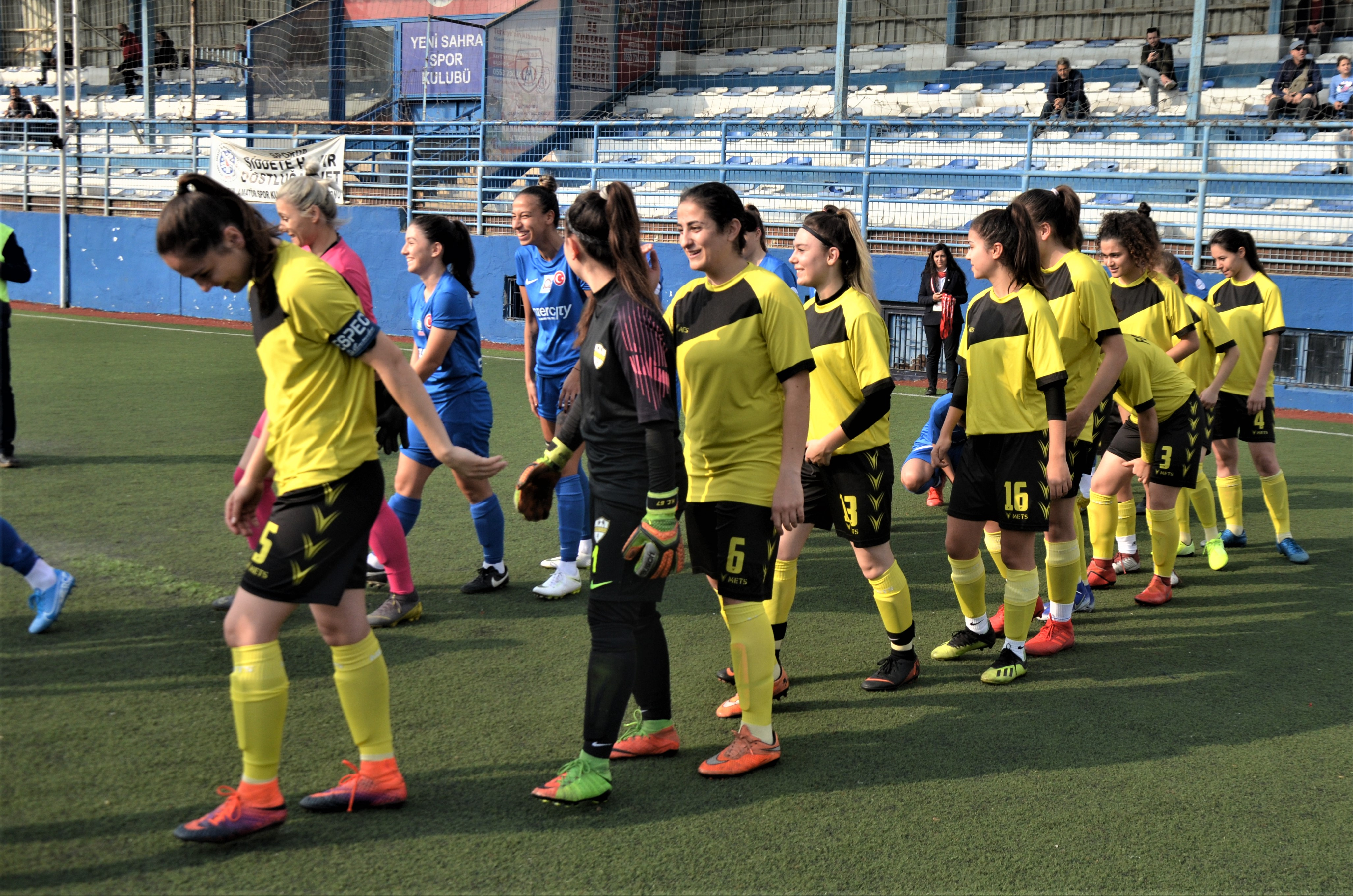 Ataşehir Belediyespor (blue) vs Fomget Gençlik ve Spor (yellow/black) in the 2019-20 Turkish Women's First League at Yenisahra Stadium.